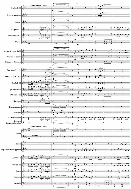 Hymn of Khanty-Mansi Autonomous Okrug.